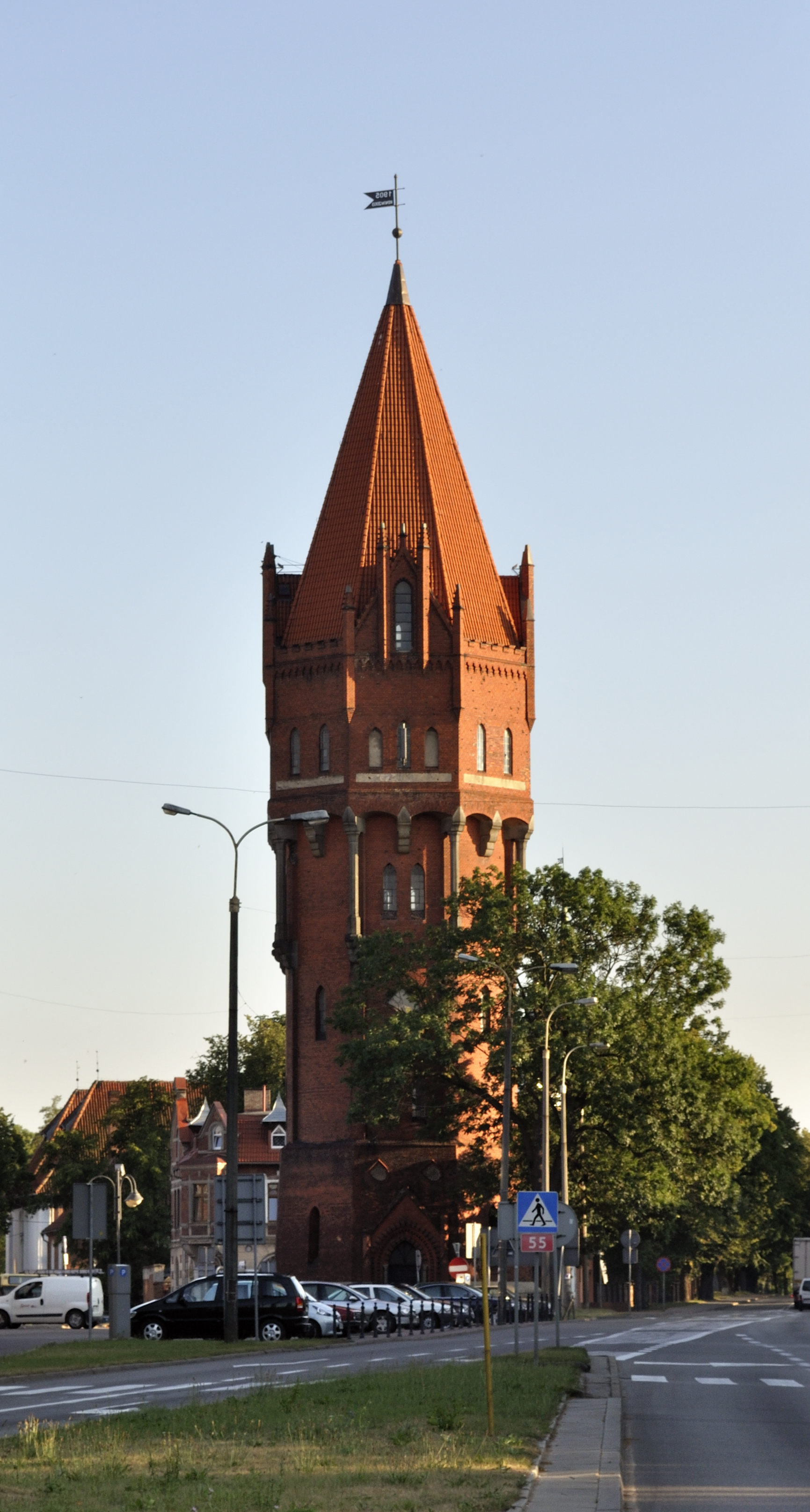 Picture taken in Malbork after Wikimania 2010 conference.